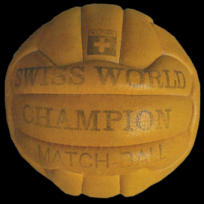 Swiss World Champion . FIFA World Cup ball 1954